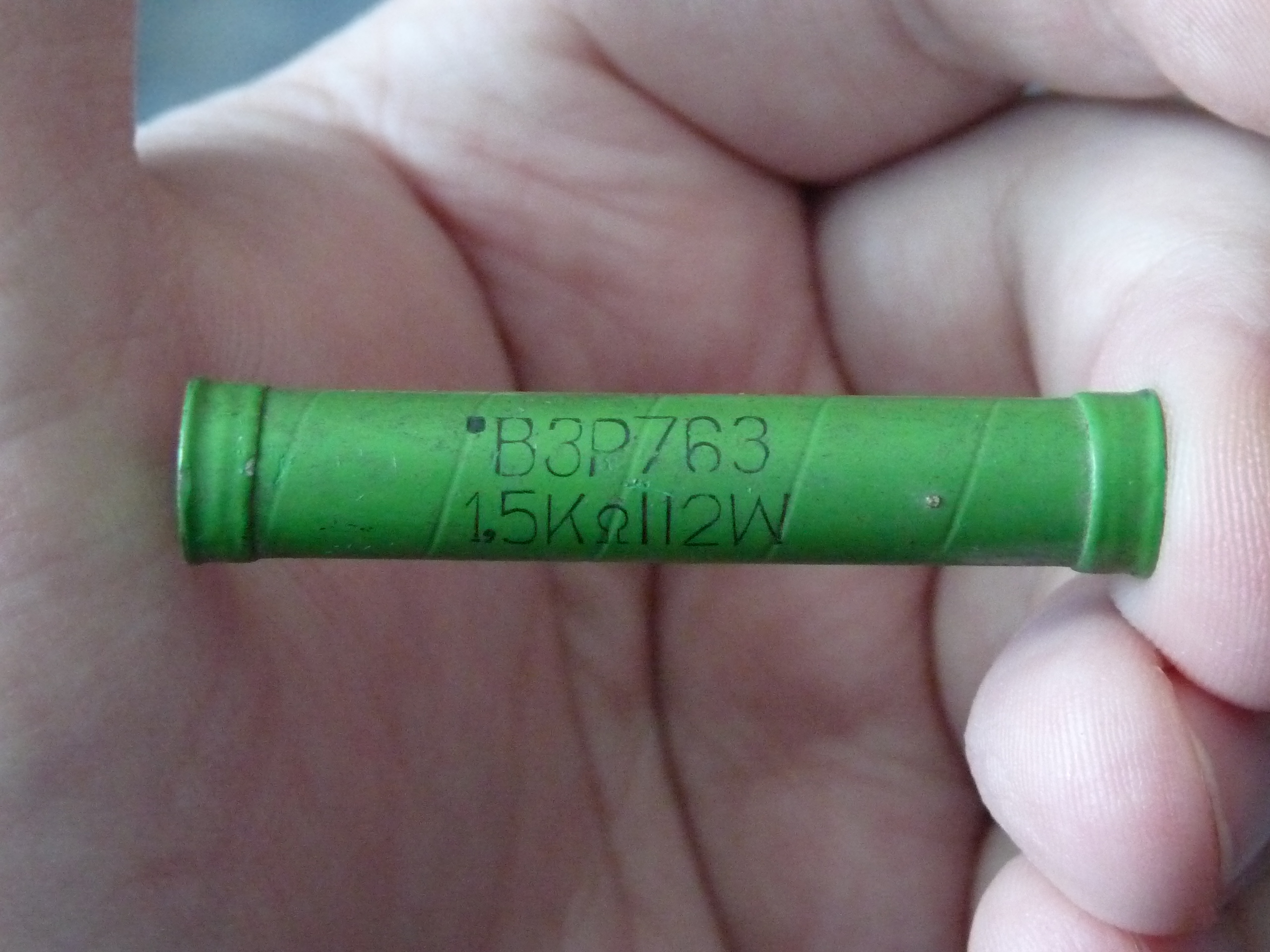 VZR power resistor 1.5kΩ 12W, manufactured in 1963 in USSR